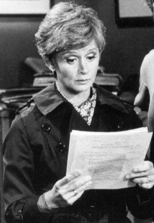 Publicity photo of Hal Linden and Barbara Barrie as Barney and Liz Miller from the television program Barney Miller.